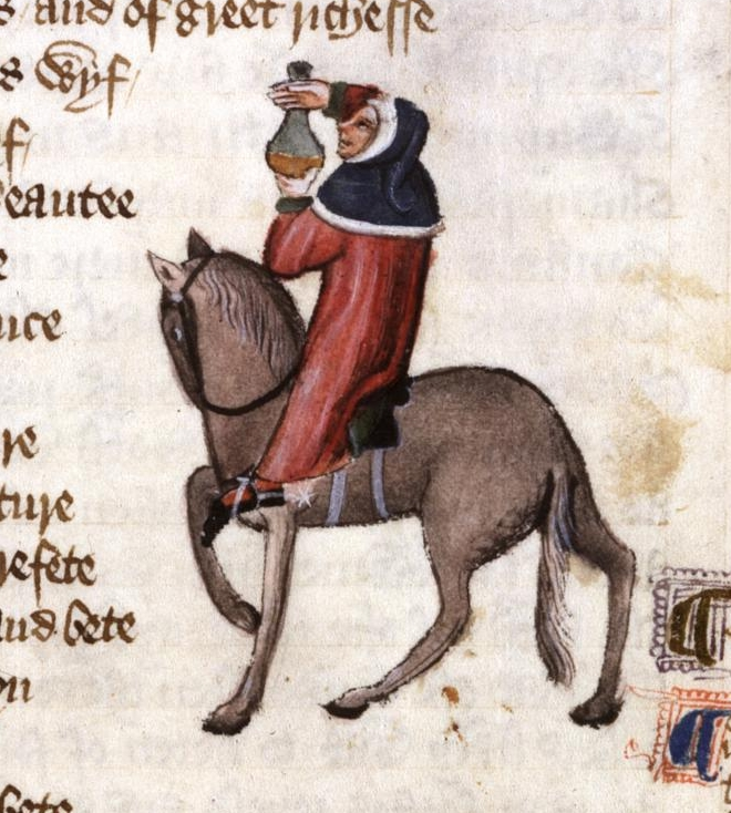 The Physician in the Ellesmere manuscript of Geoffrey Chaucer's Canterbury Tales.